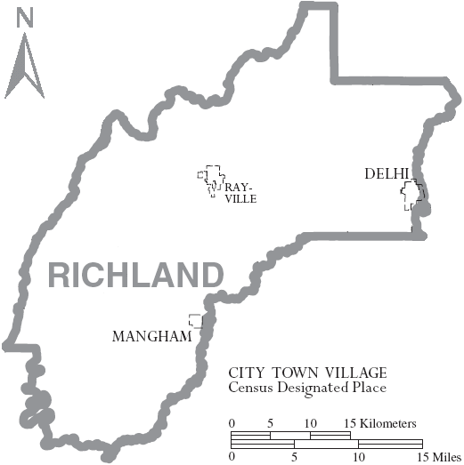 Map of Richland Parish, Louisiana, United States with municipal boundaries